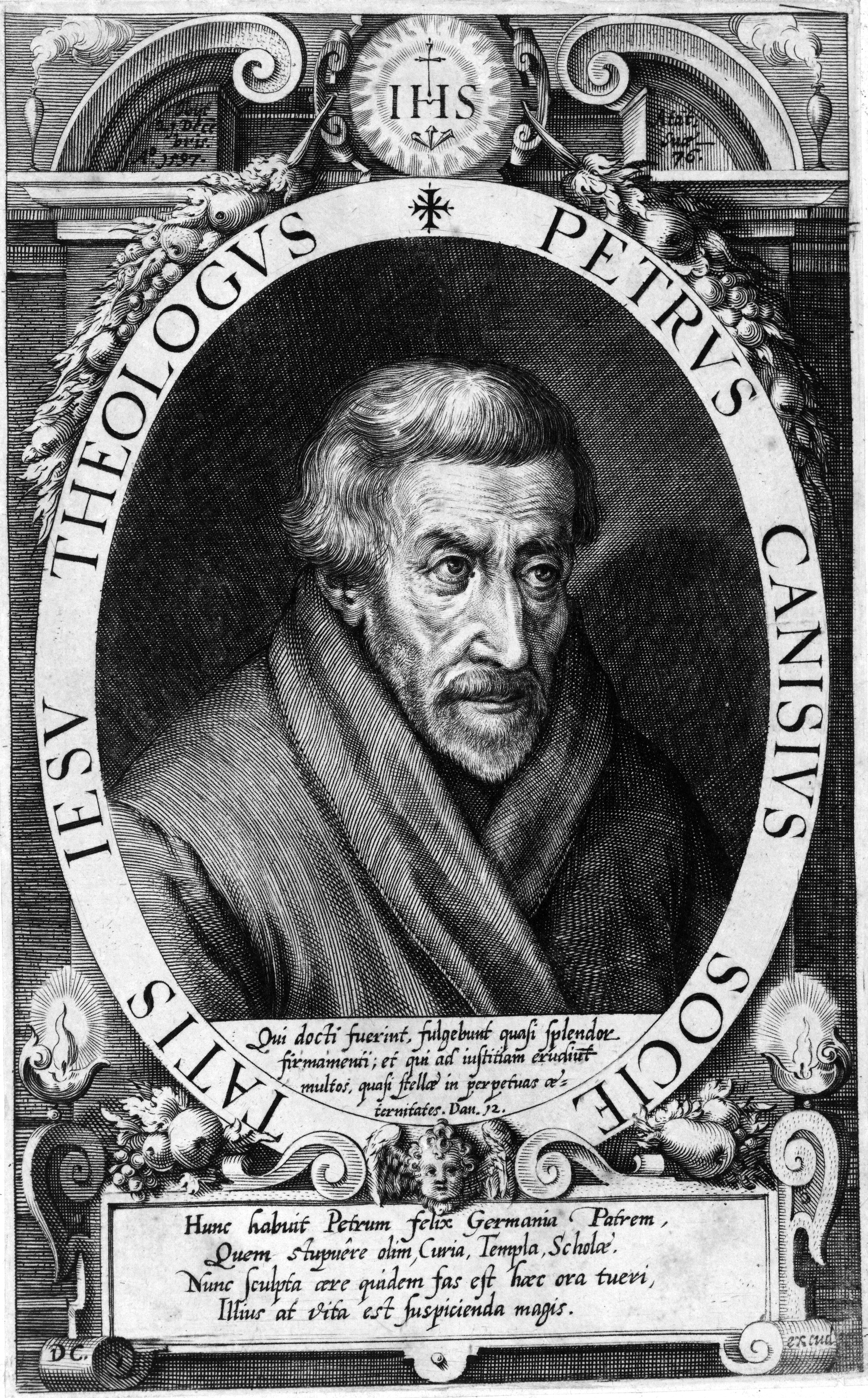 Depicted person: Petrus Canisius